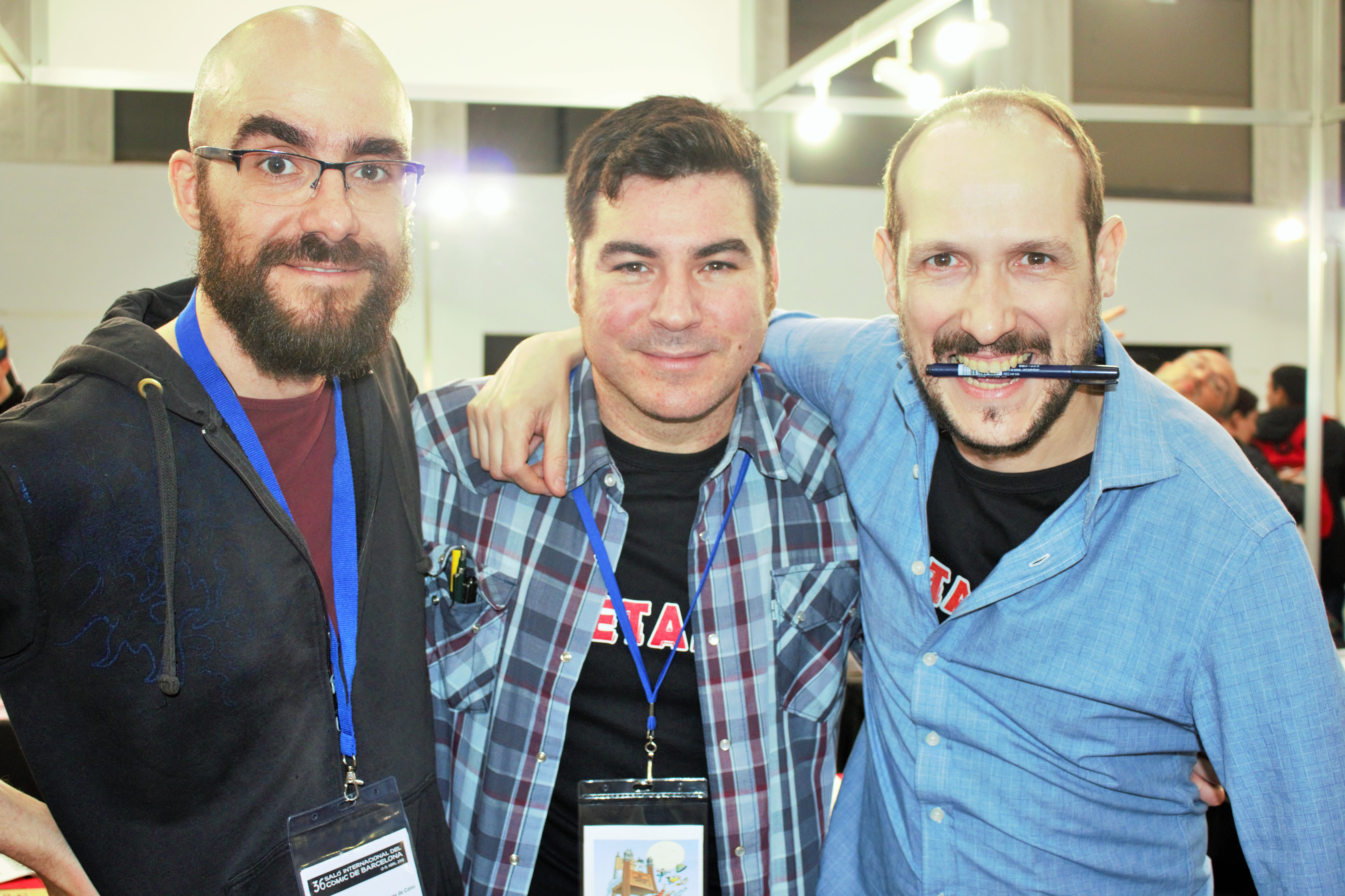 Els authors of the fanzine "Los Diletantes". From left to right: Óscar Sanz, David Tapia and Juan Ros. Los Diletantes won the prize to the best fanzine of the Barcelona International Comic Fair of 2018.